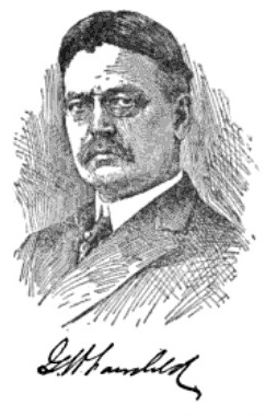 George Winthrop Fairchild, Congressman from New York